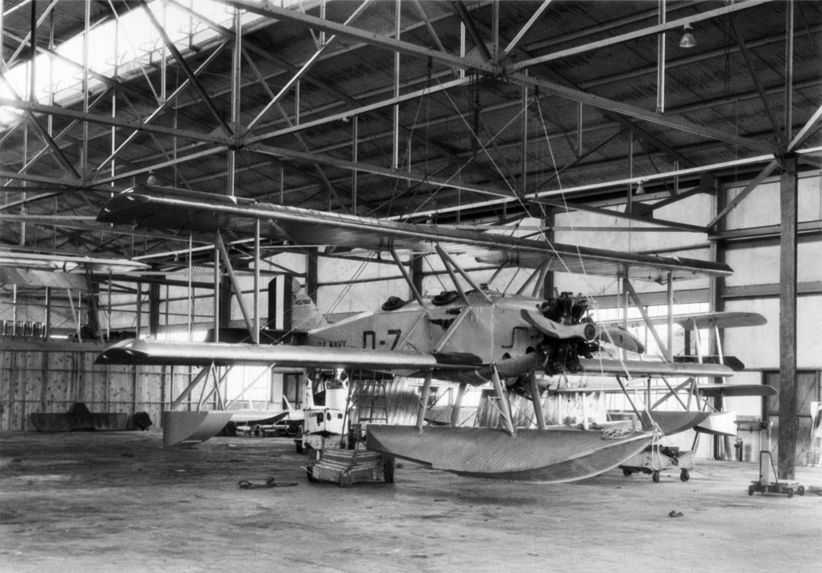 Designed as a primary trainer for the U. S. Navy, the Boeing NB-1 (BuNo A6762) was used by the NACA at Langley starting in October 1926. The float-quipped example used by the NACA was suspended from the NACA hangar roof for work.